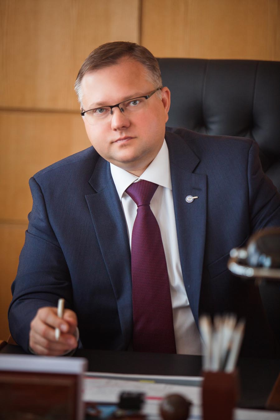 Yevgeniy Semivelichenko, the Managing Director of PJSC "UEC-UMPO"